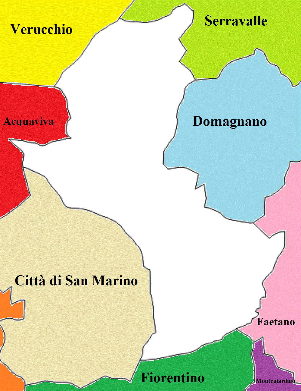 Map of Borgo Maggiore (San Marino)